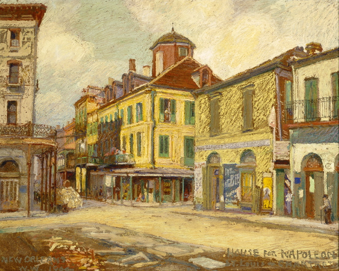 "House for Napoleon, St. Louis and Chartres Streets". Painting of view of the Napoleon House, French Quarter of New Orleans, 1904, by artist William Woodward (1859-1939).